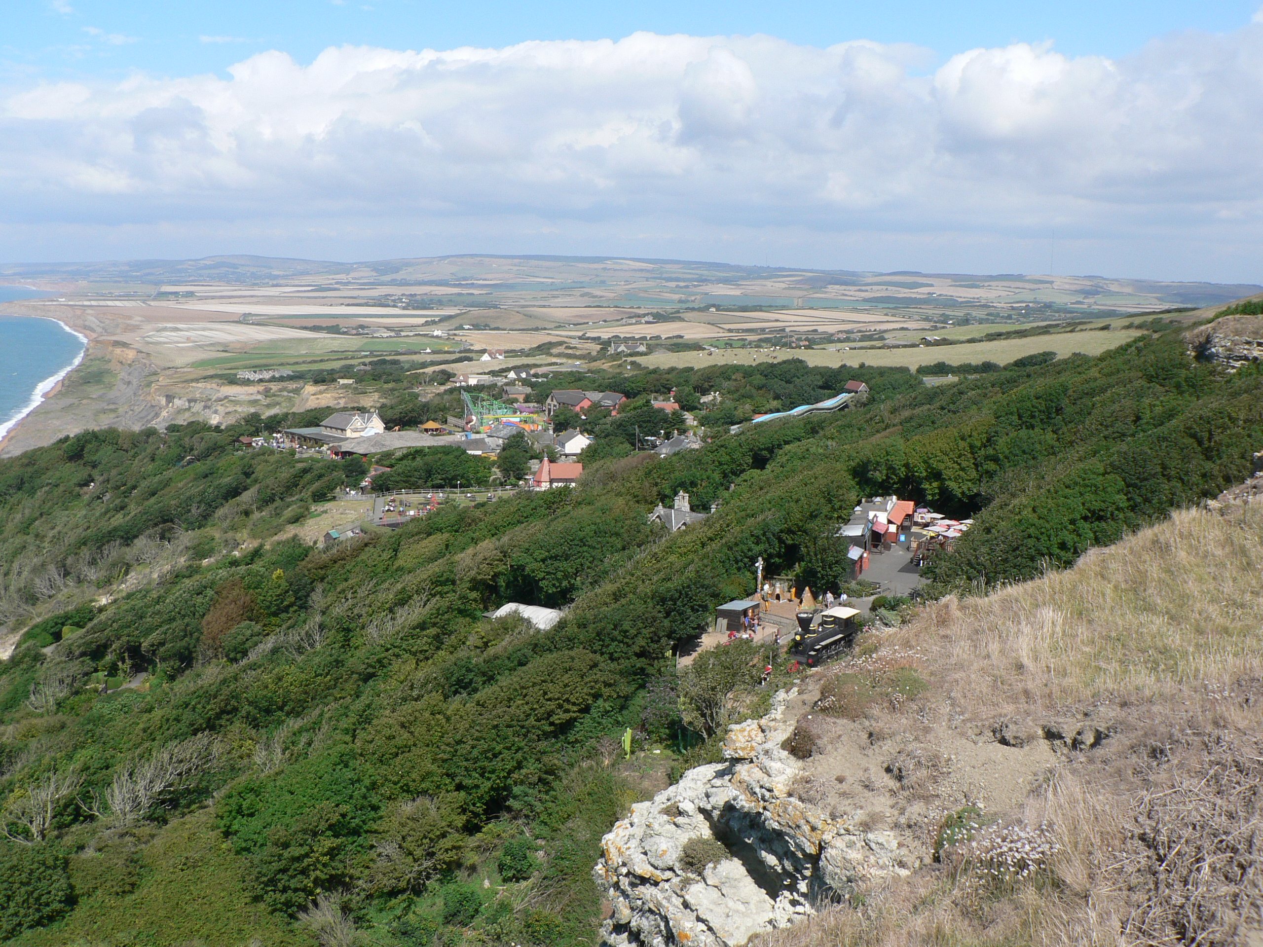 Looking Down on Fantasy Park at Blackgang Chine, UK.